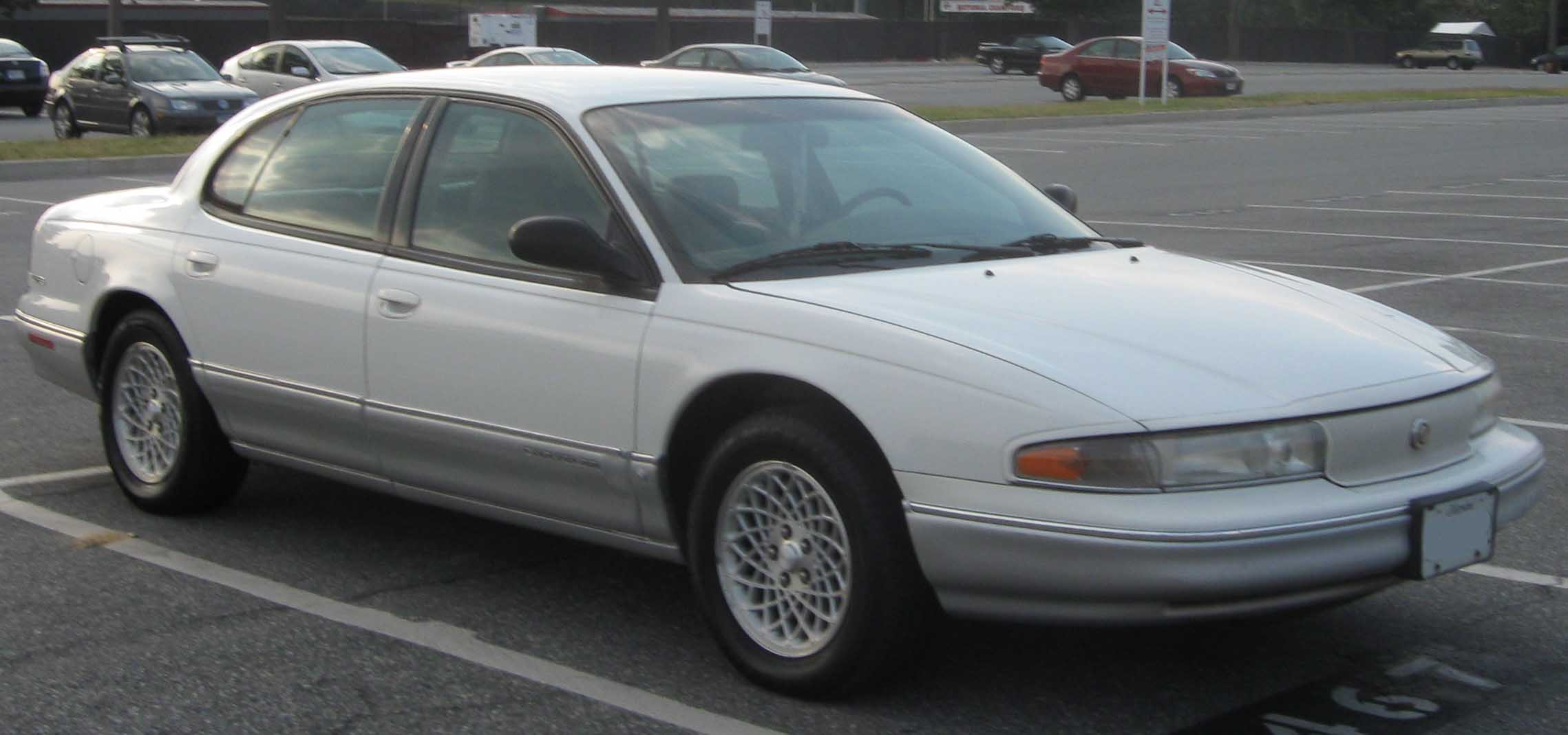 1995-1997 Chrysler LHS photographed in College Park, Maryland, USA.